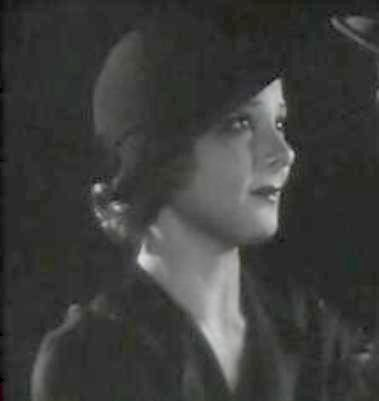 Cropped screenshot from the trailer for the film I Am a Fugitive from a Chain Gang